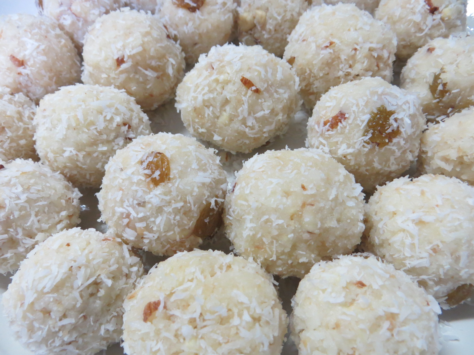 Made of Coconut and sugar.